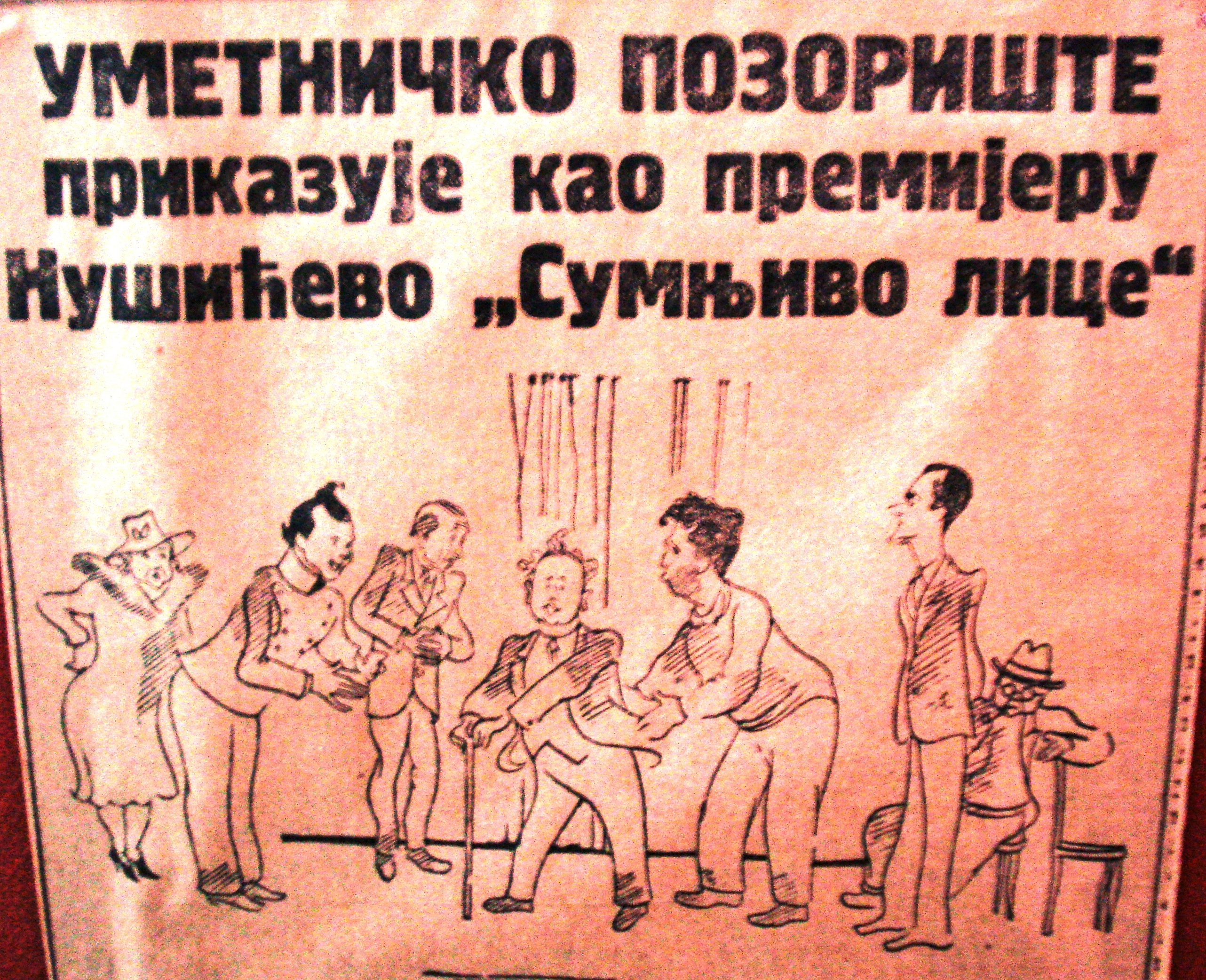 Promotional poster for one of the most famous Nusic's playwrights "Sumnjivo lice"